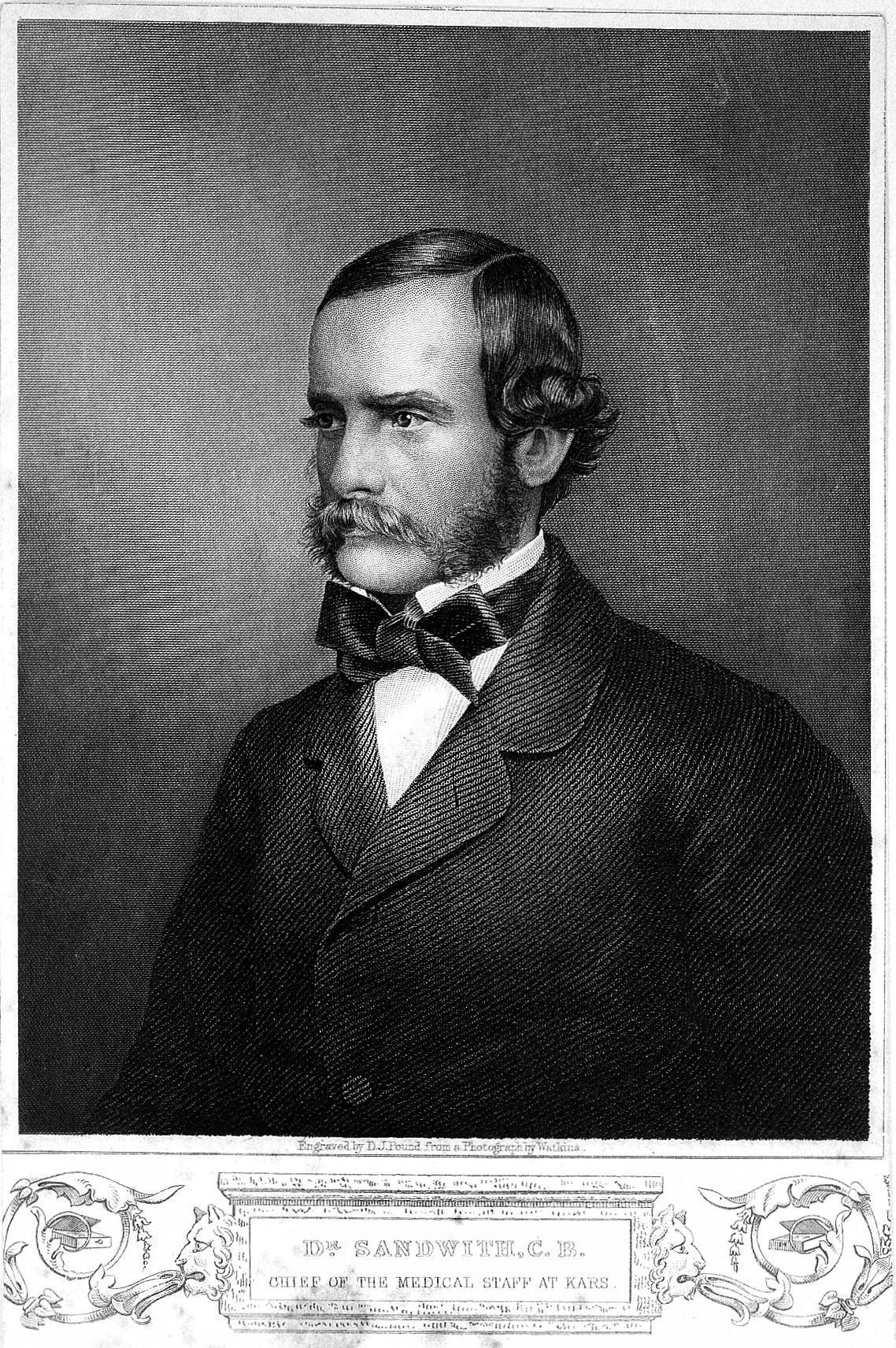 Iconographic Collections